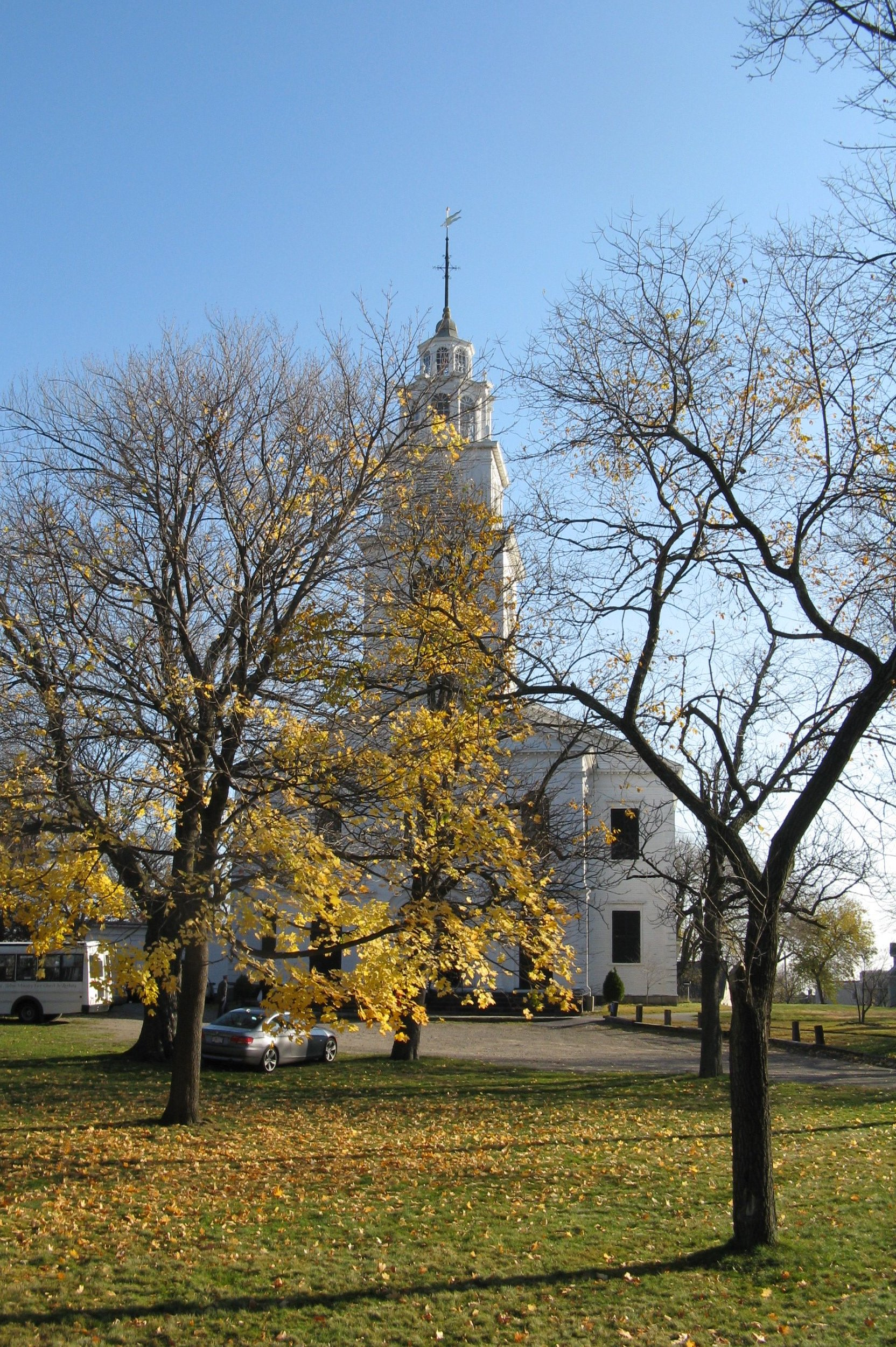 First Church in Roxbury Massachusetts